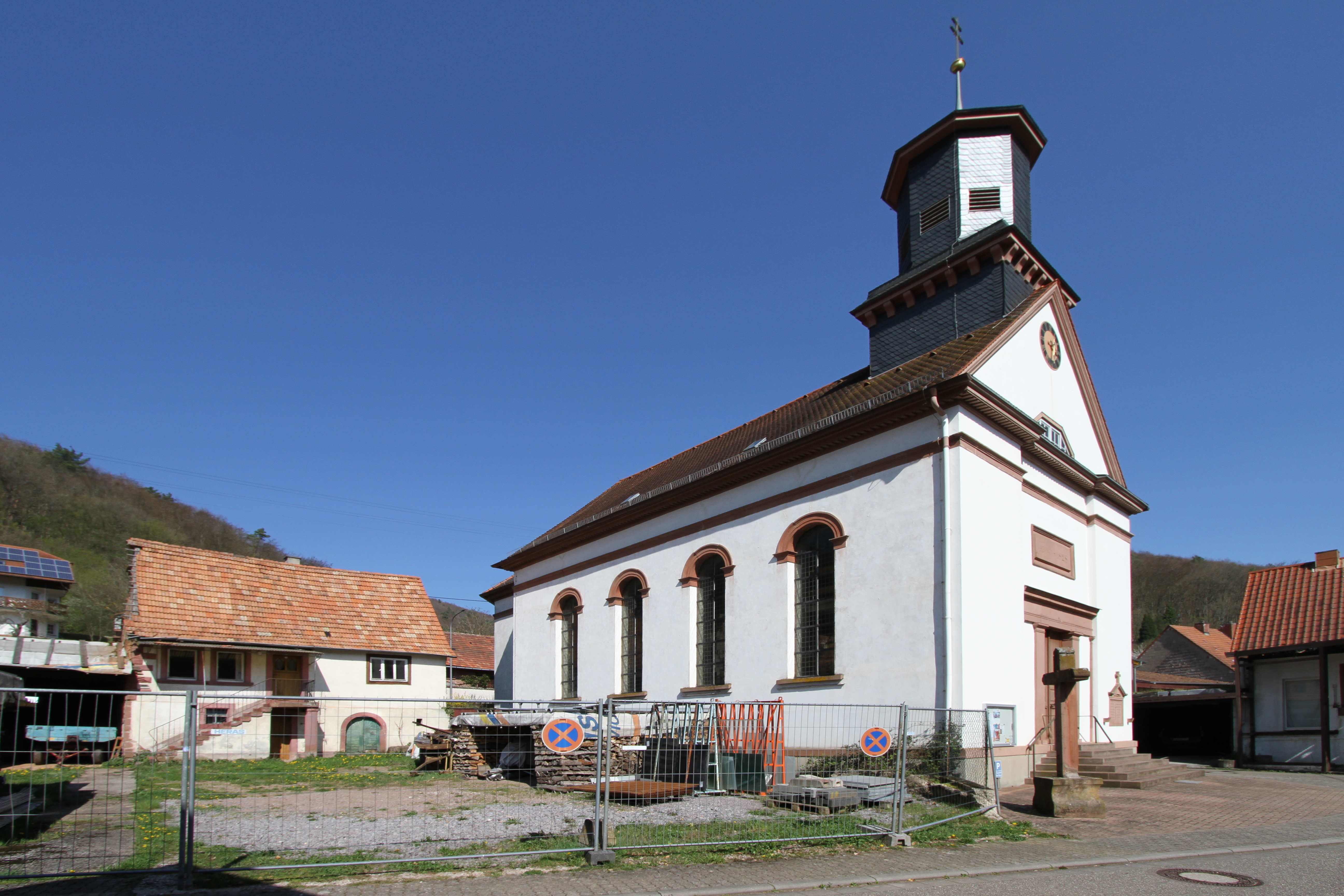 Church of Saint Giles in Waldrohrbach.